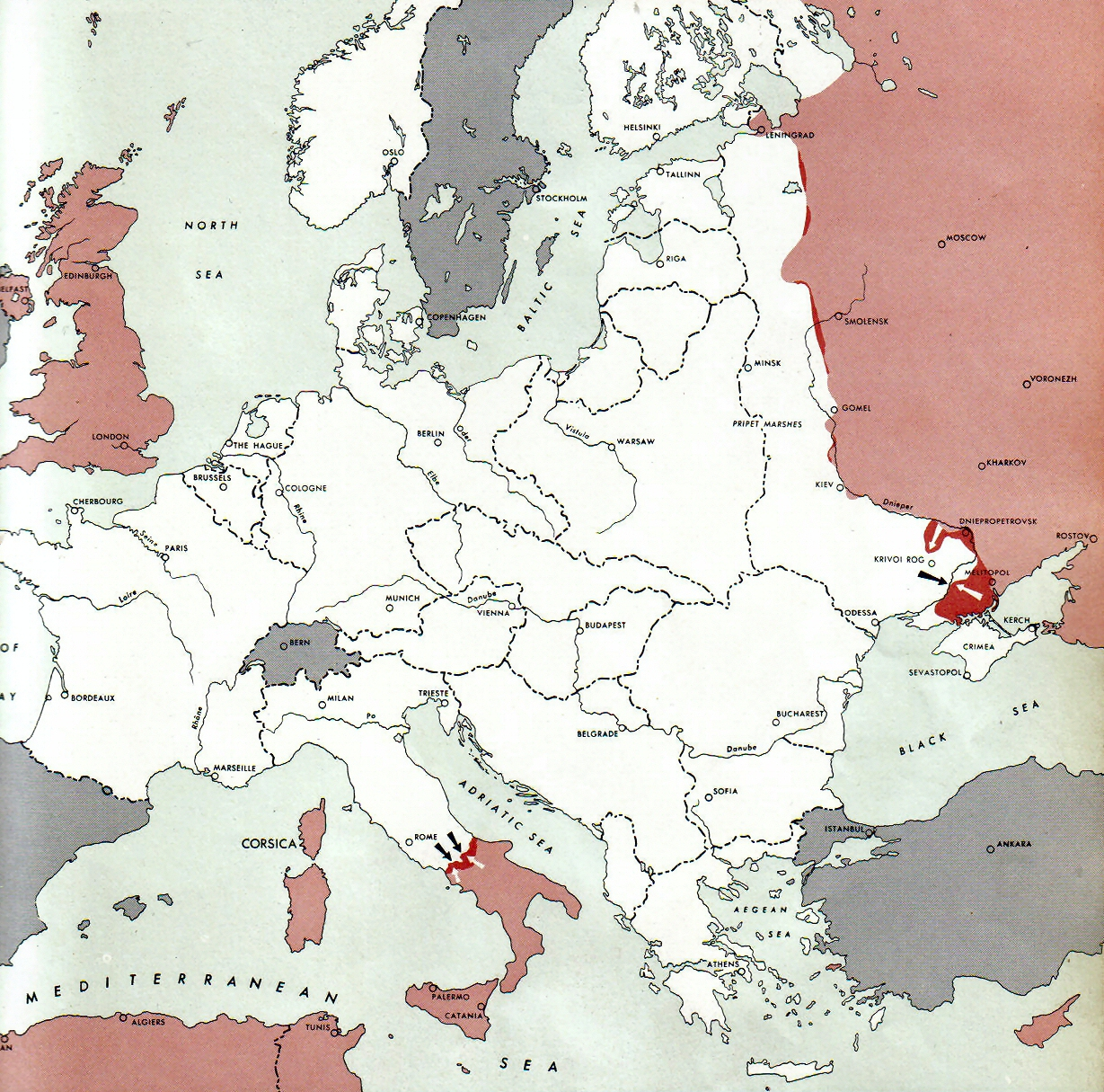 Map of the front against Germany: This map is taken from the source "Atlas of the World Battle Fronts in Semimonthly Phases to August 15th 1945: Supplement to The Biennial report of The Chief of Staff of the United States Army July 1, 1943 to June 30 1945 To the Secretary of War". (See Cover, Forward and Map details)